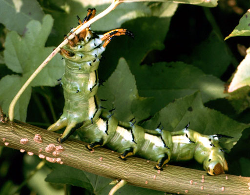 Hickory Horned Devil, Citheronia regalis, Feeding on Sweetgum, Liquidambar styraciflua. Location: Orange County, North Carolina, United States